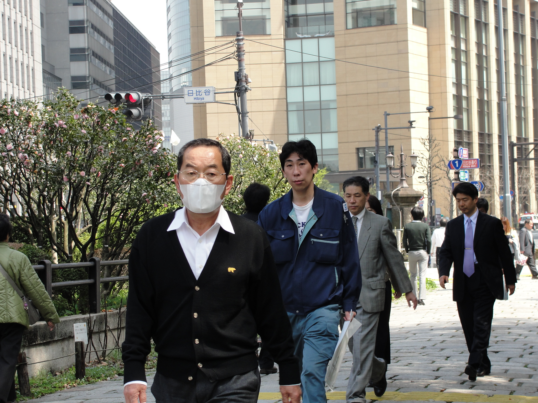 Original caption: This photo used a lot of zoom. I honestly wasn't in this guy's face. I'm surprised I don't have more photos of people in face masks, actually, there are a lot of them about. At first I thought (combined with the health check / contagion zone at immigration) it was a swine flu thing, but Tom (the guy who met up with me on Saturday) says it's more likely to be about hay fever this time of year; also, that it's considered polite to wear a mask if you have a cold yourself. I'm probably not making myself popular by doing a fair bit of coughing (I still had a sore throat when I arrived and spent the first week on antibiotics; also, the air is really dry here. I'm doing a lot of throat clearing and my skin is falling to bits) and when the sun's out my photosensitive sneezing is really making itself felt.